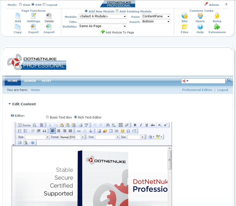 Summary - Screenshot of the edit mode in DotNetNuke version 5. Author - screenshot prepared and taken by Audiohifi, September 2009 Source - local DotNetNuke installation Fair use rationale - this screenshot shows the functionality of a software project and was taken with permission from the owners of the copyright on the software (DotNetNuke Corporation, permission granted September 2009)